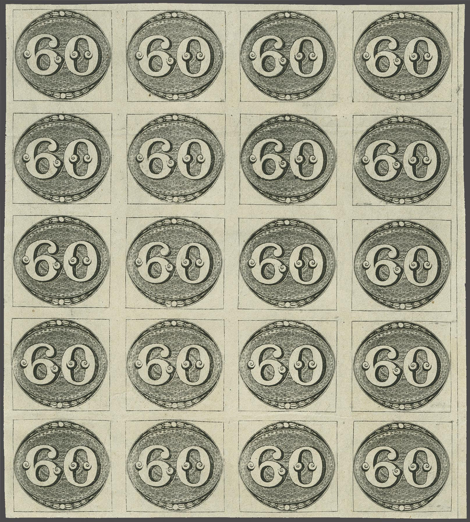 Brazil 60 reis Bull's Eyes